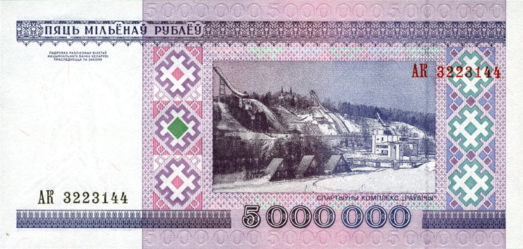 1999 Belarus 5 000 000 rubles bill. Reverse.